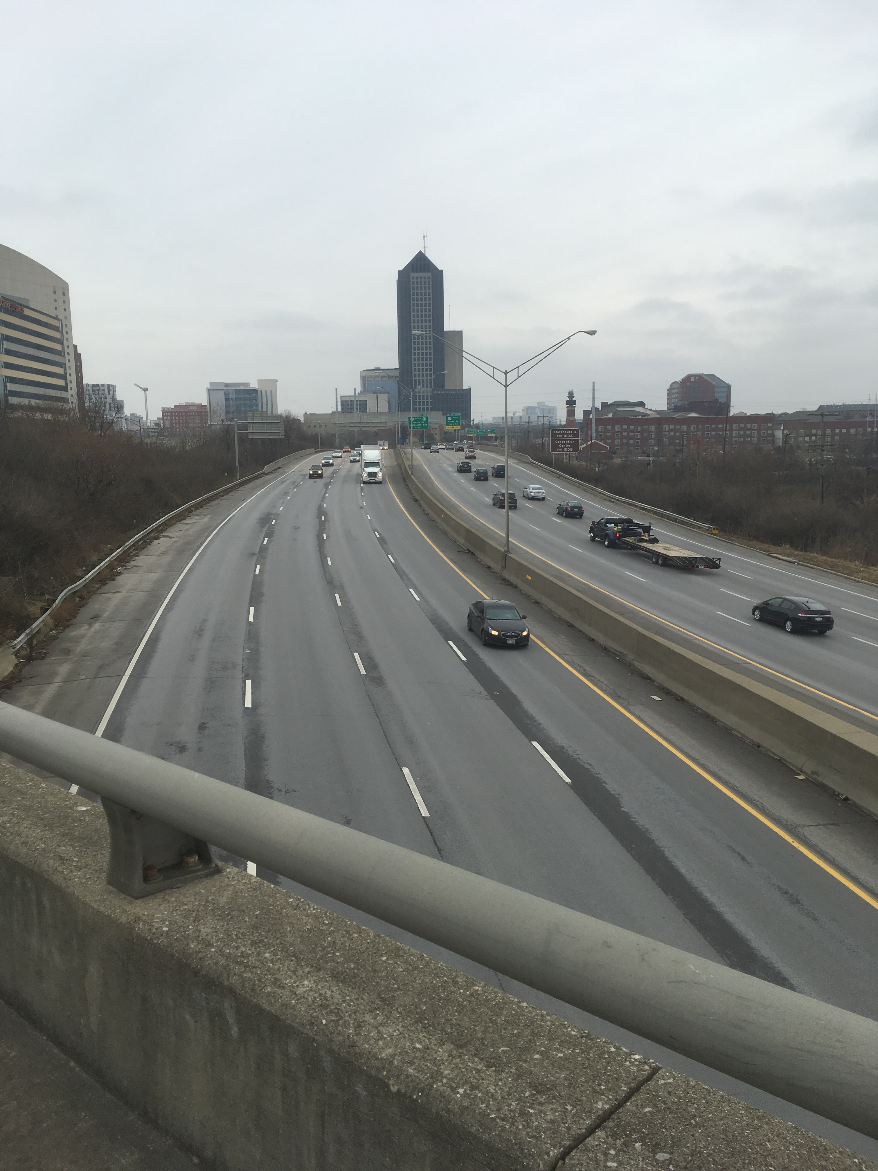 From a bridge over Interstate 70 in Columbus, Ohio looking East.